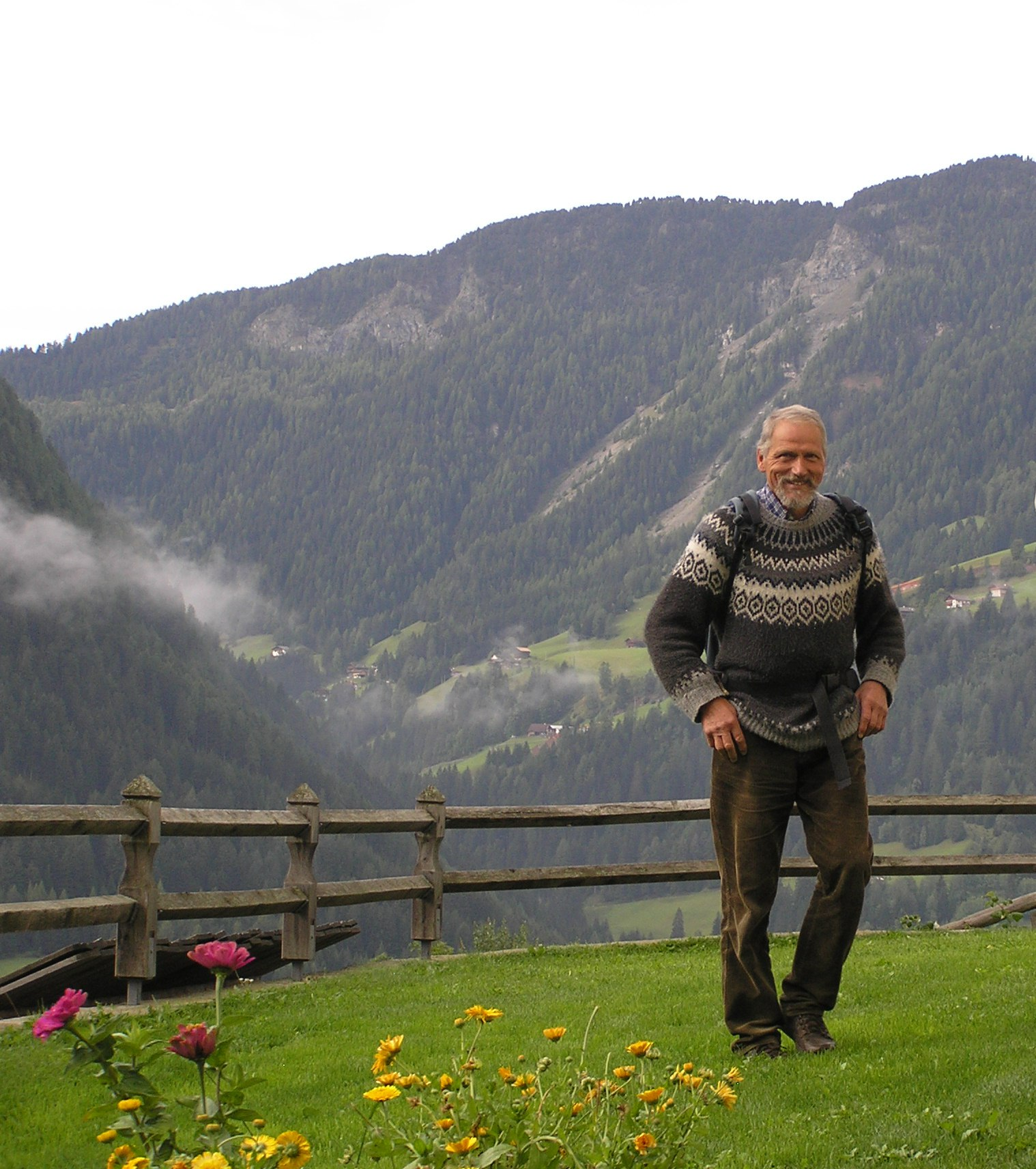 Artist and sculptor Antonio da Cudan in his home town Ortisei, Italy.